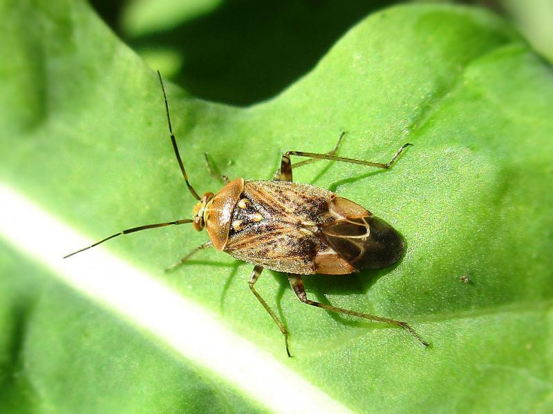 Lygus rugulipennis (Miridae sp.), Doorwerth, the Netherlands